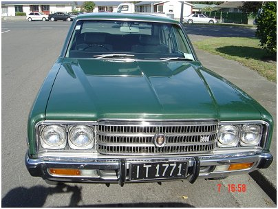 Toyopet Crown S80 Series